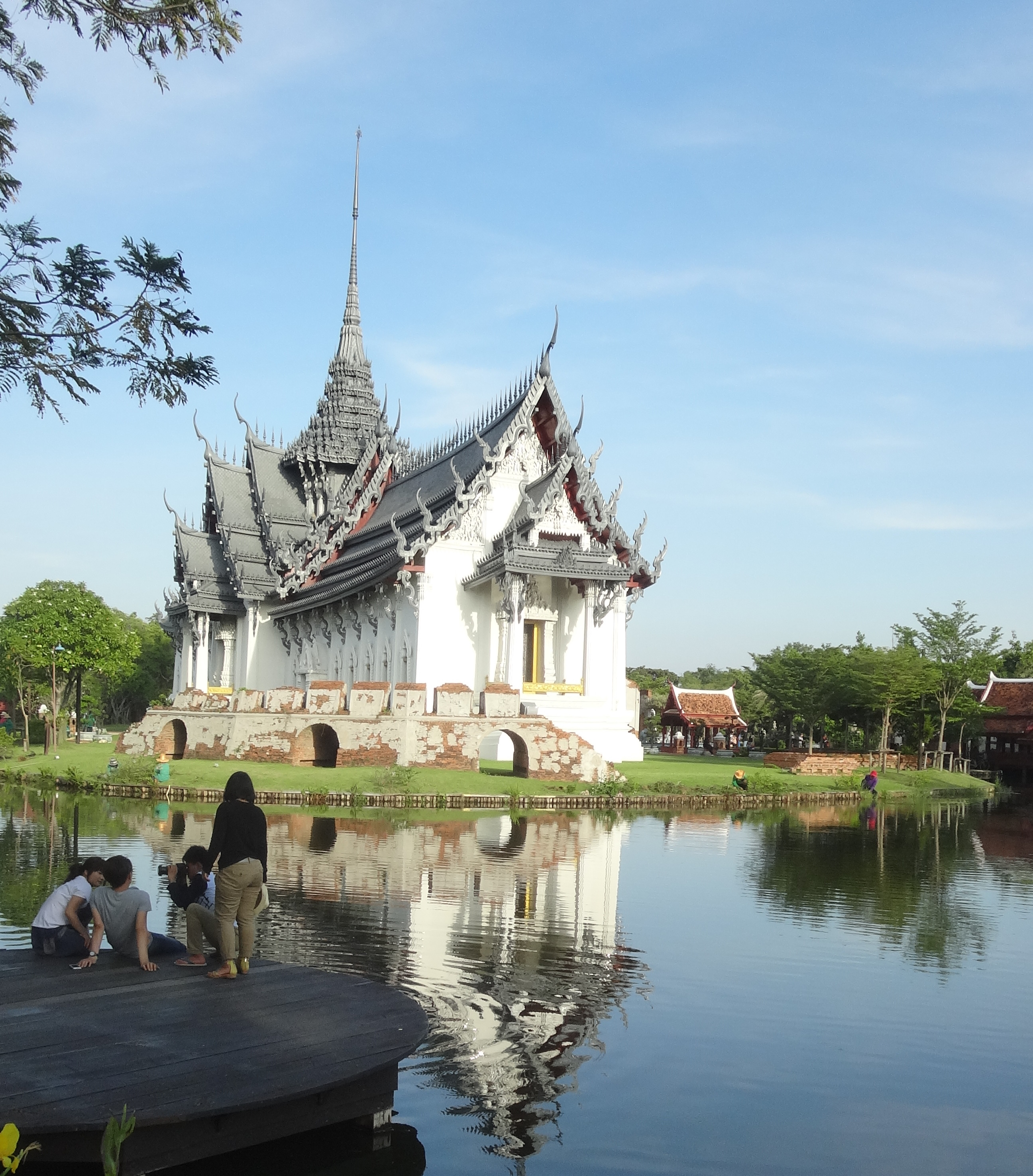 Thailand Bangkok